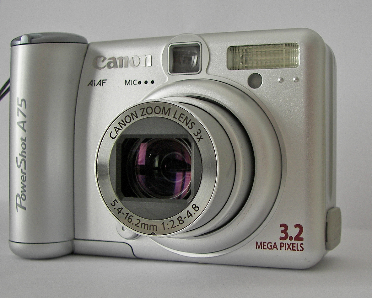 Canon PowerShot A75